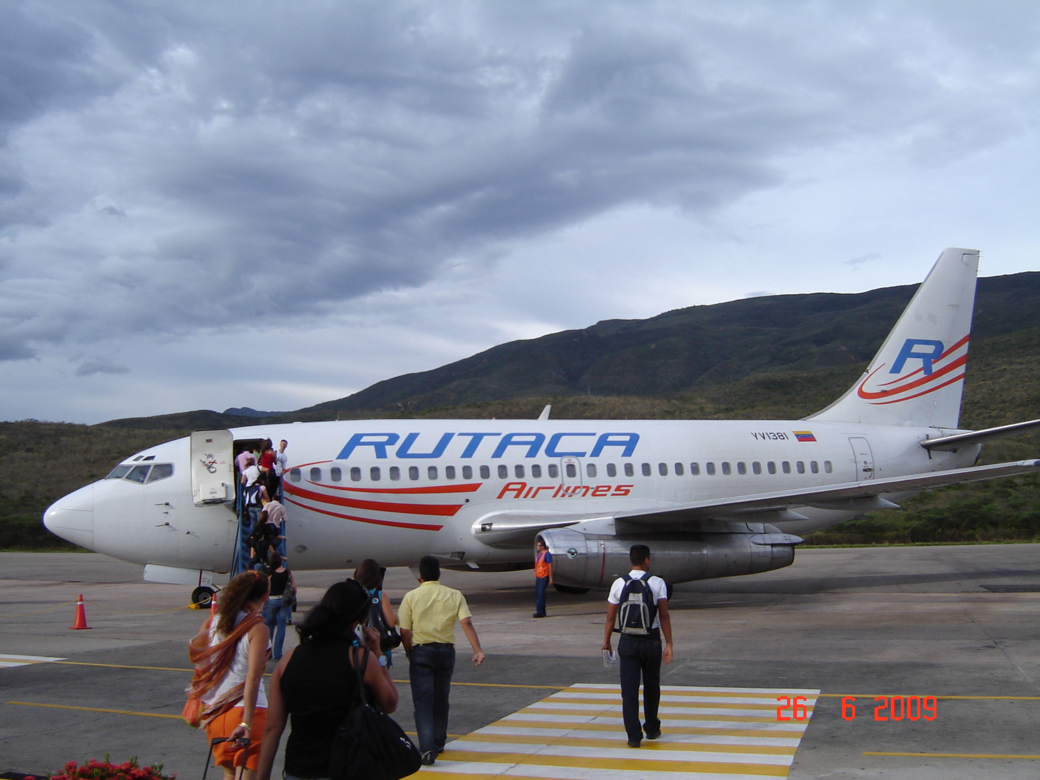 A Rutaca's Boeing 732 at San Antonio del Táchira Airport (SVZ-SVSA)